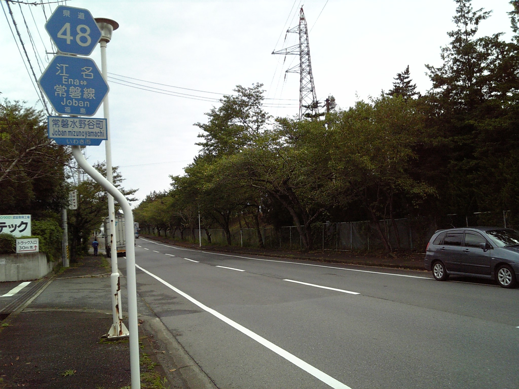 The Fukushima Prefectural Road Route 48 in Joban Industrial Park in Jobanmizunoyamachi, Iwaki City